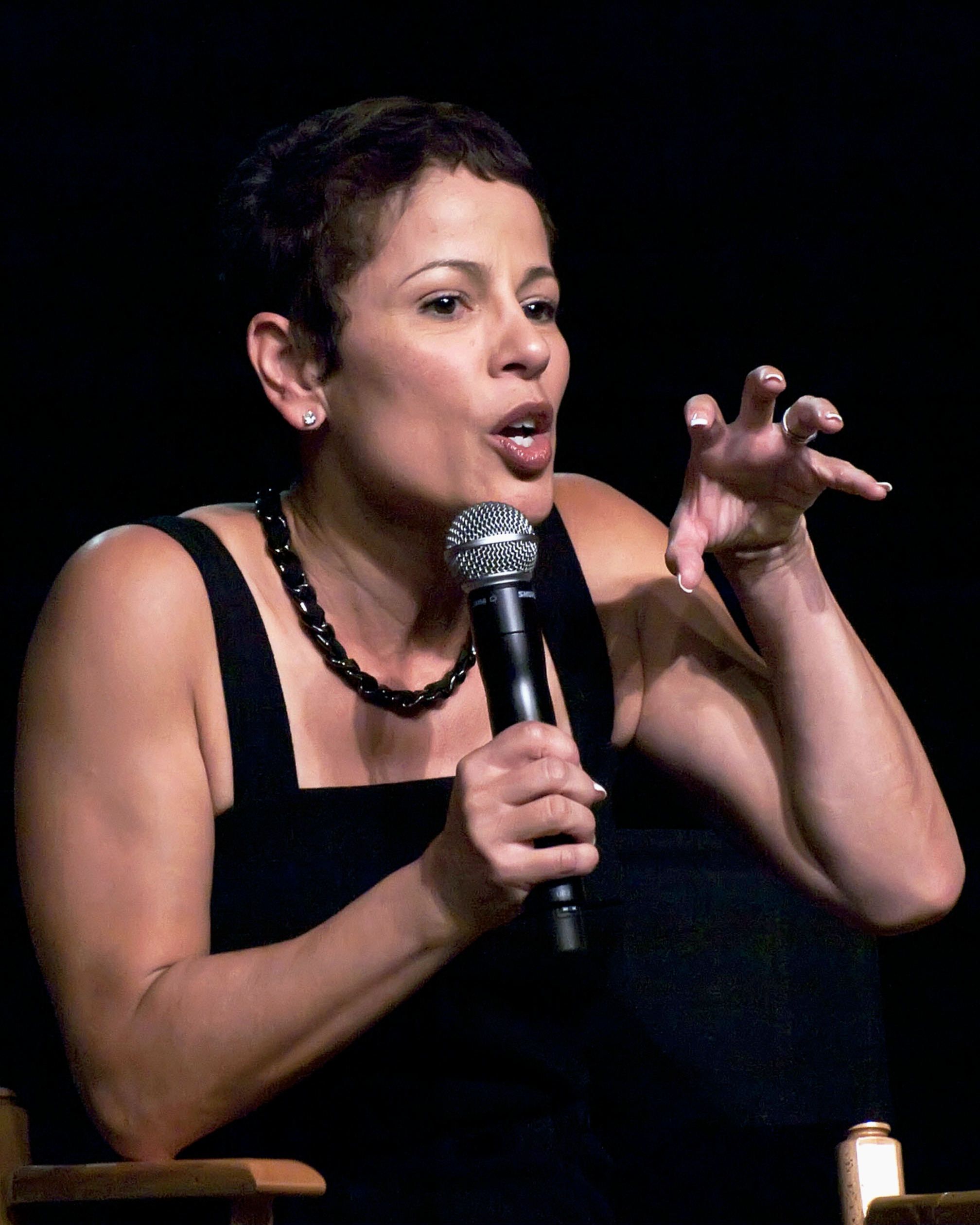 Roxann Dawson at 2009 Las Vegas Star Trek Convention.